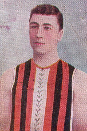 Cigarette card of Jimmy Smith from the 1905 Wills Past and Present Champions series.